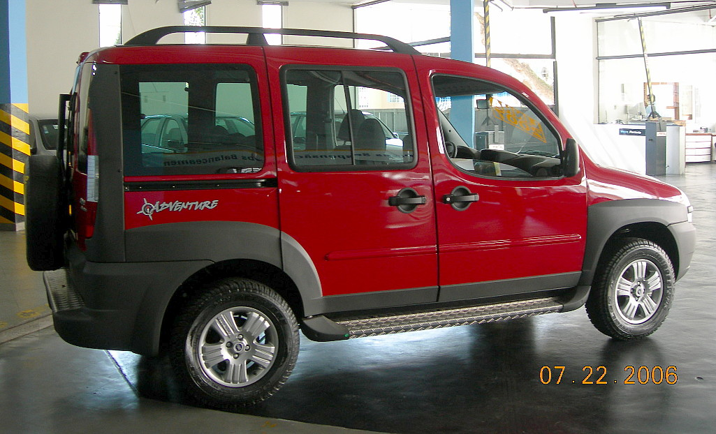 A Fiat Doblò Adventure, with lots of space for... whatever comes on mind to carry.^v^